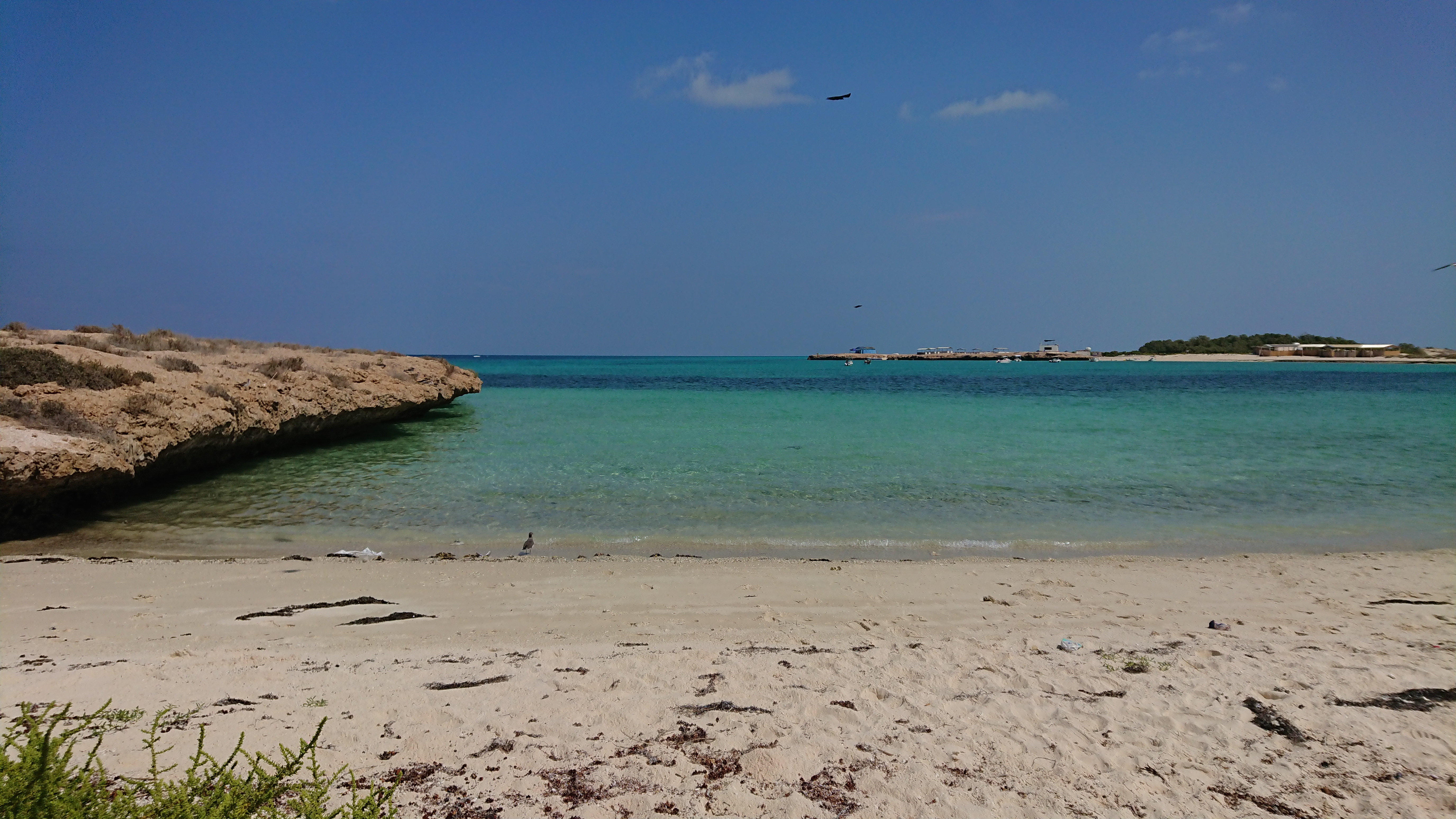 This is an image with the theme "Play" from: Djibouti